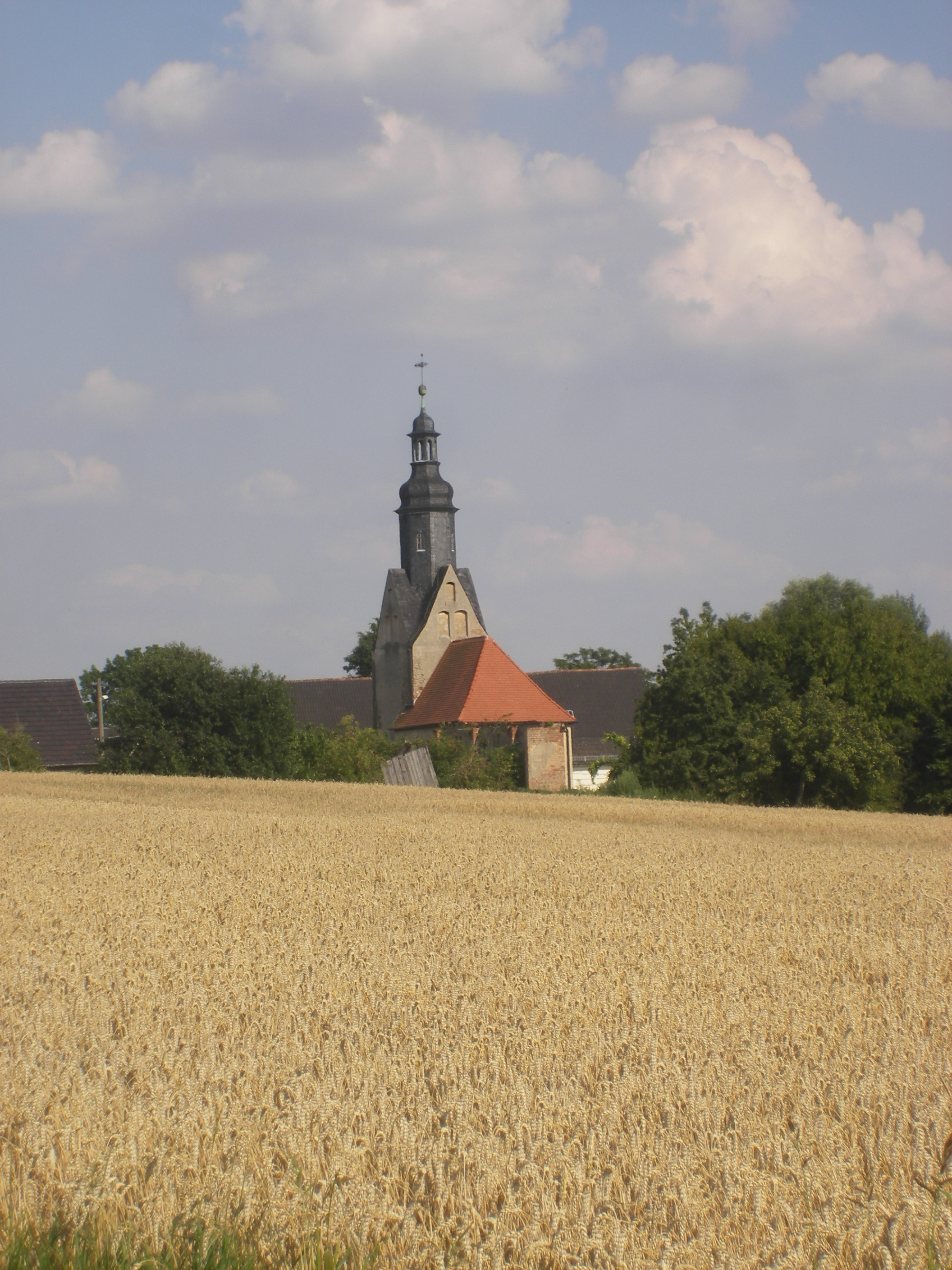 Church in Großmecka near Altenburg/Thuringia